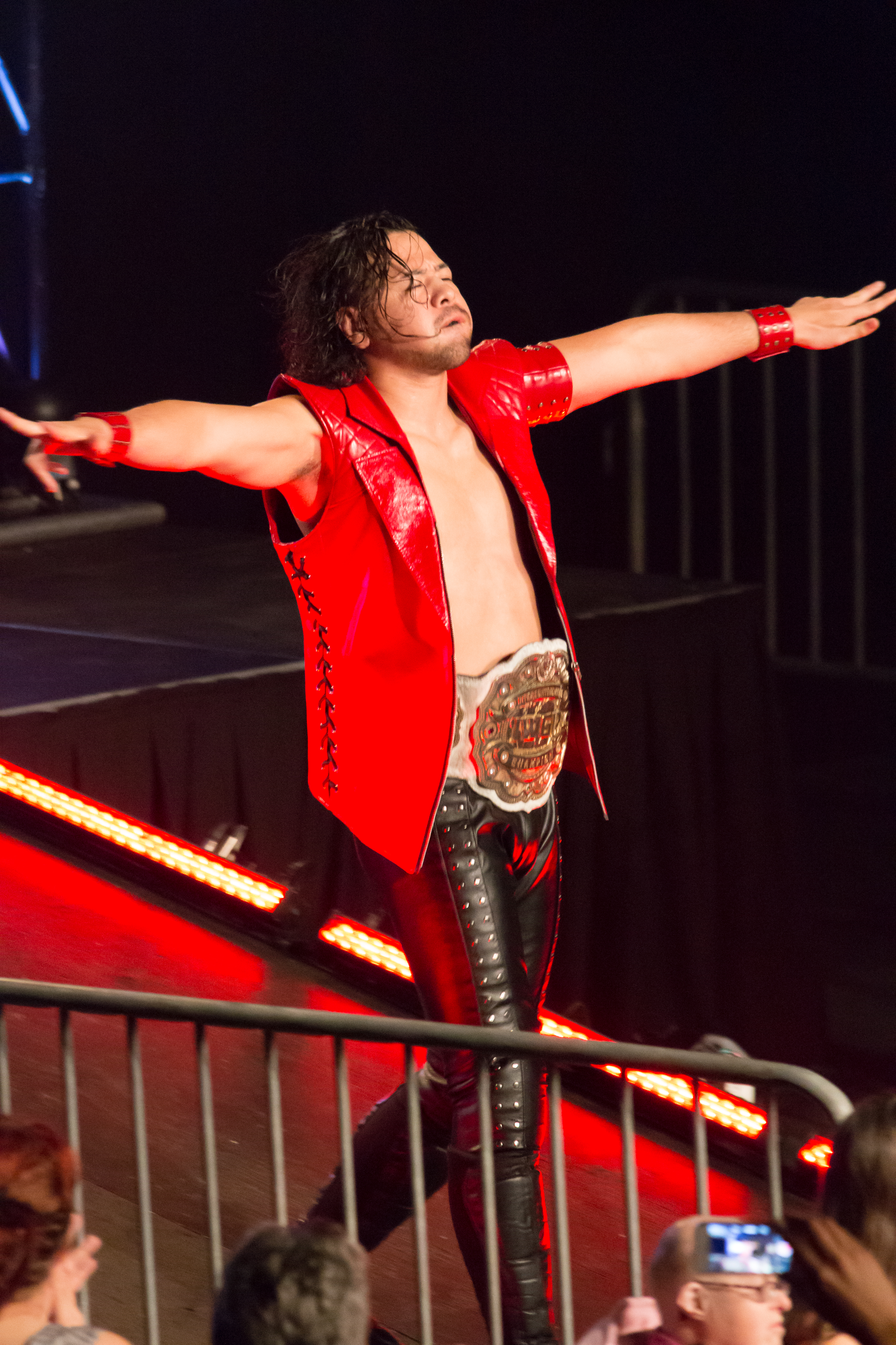 Shinsuke Nakamura making his way to the ring at BCW's East Meets West show at St Clair College in Windsor, ON. The belt around his waist is the IWGP Intercontinental Championship